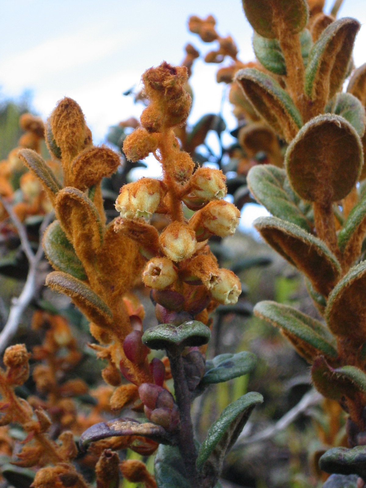 Gaultheria lanigera var. lanigera, photographed in situ in the paramo south of Cuenca, Ecuador